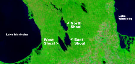 Portion of NASA map showing the Shoal Lakes in Manitoba (Captions have been added by Kayoty)